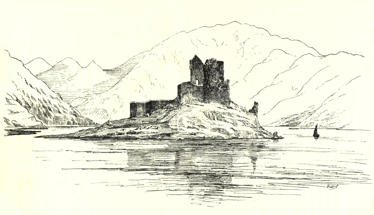 Sketch of Eilean Donan from The Castellated and Domestic Architecture of Scotland, by MacGibbon and Ross.